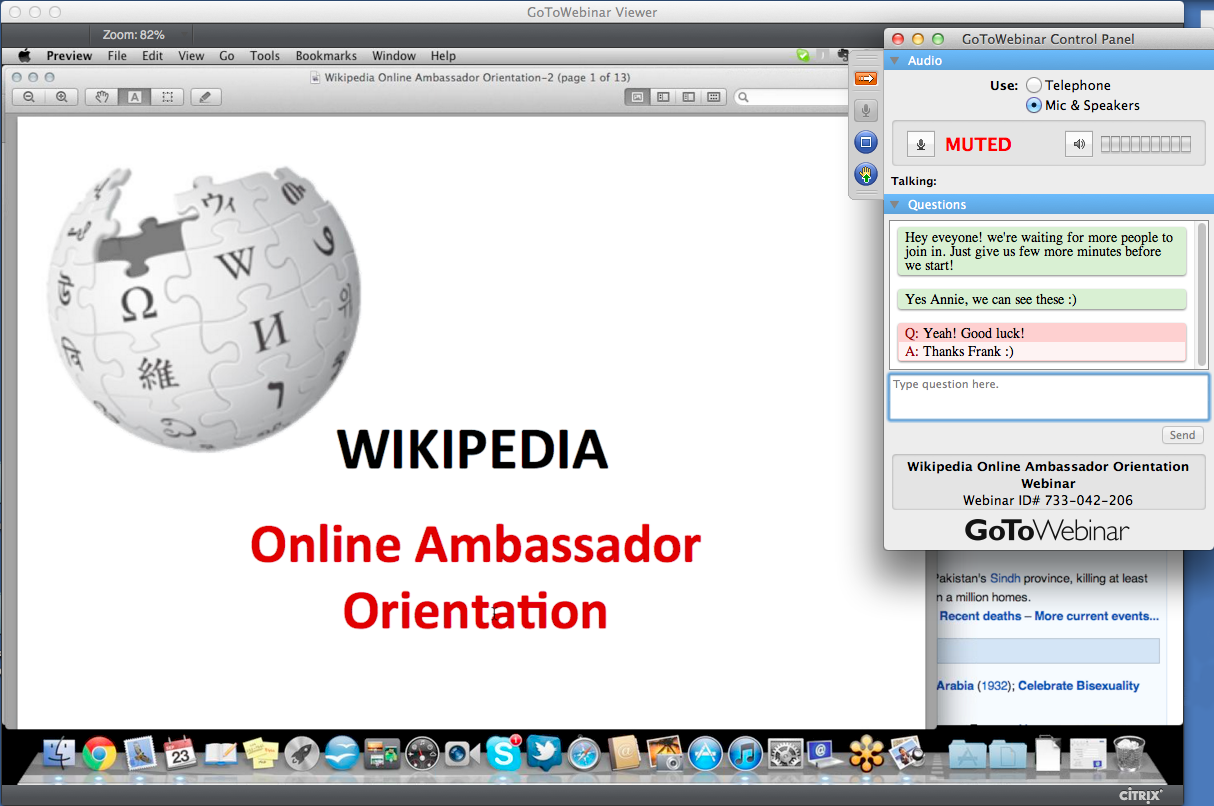 Screenshot from a webinar session for Online Ambassadors (September 22, 2011)